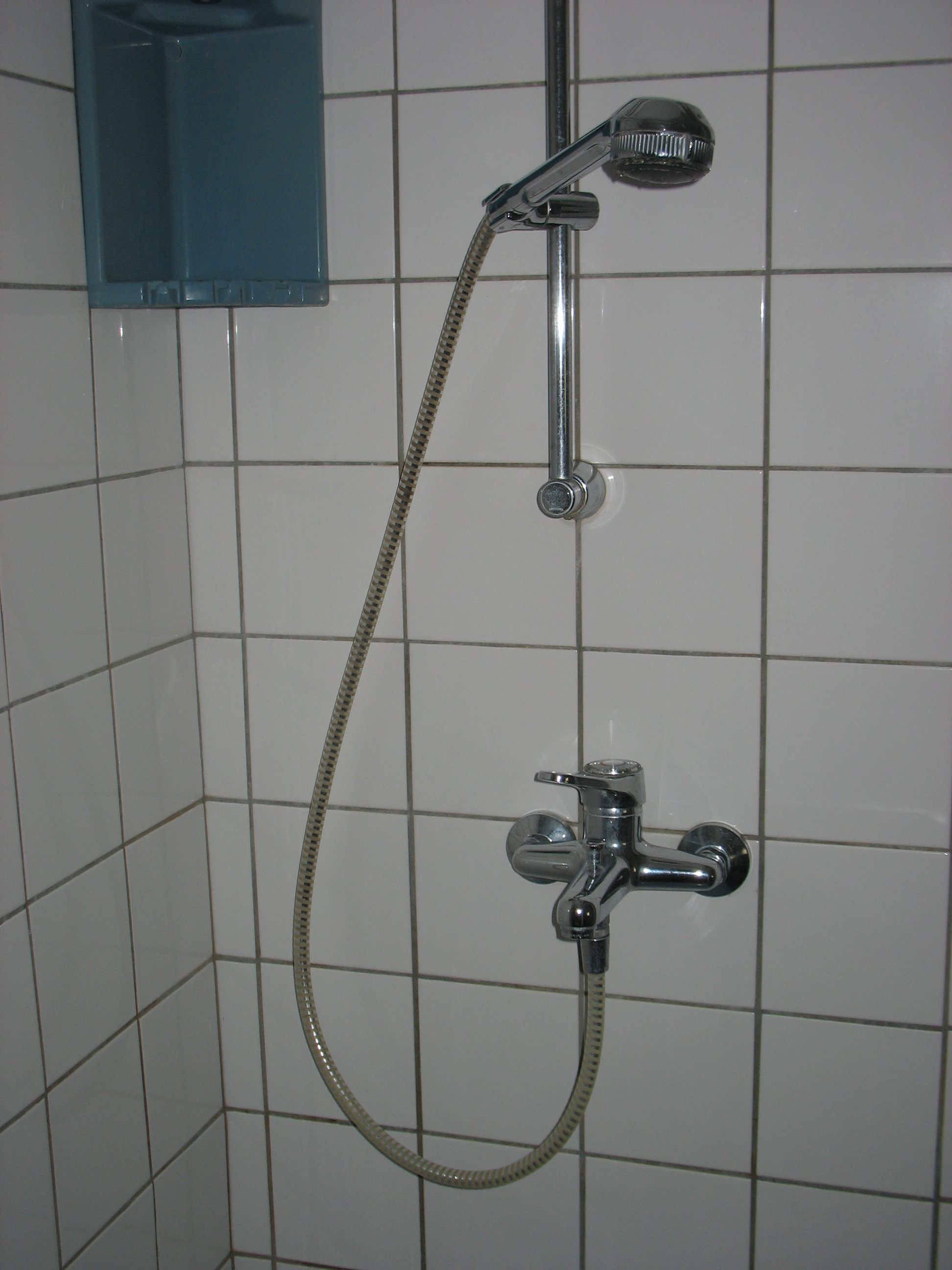 German shower tap. Single handle to control temperature and flow.